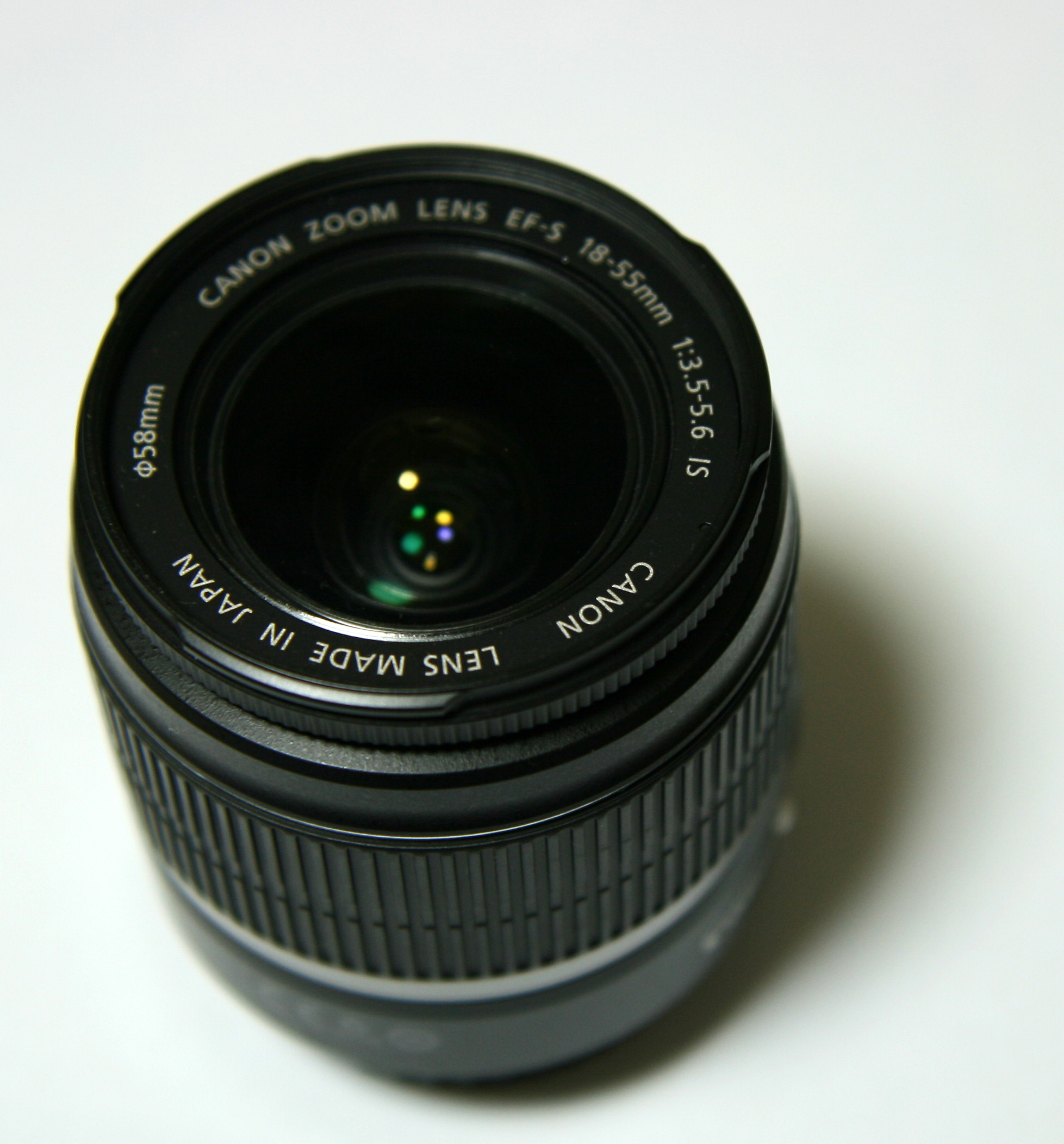 Canon EF-S 18-55mm F3.5-5.6 IS lens